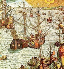 1594 litographic illustration showing Spanish boat.(Chinese:一五九四年所繪的西班牙甲板船)